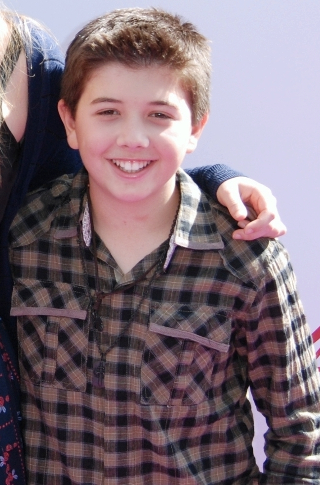 Bradley Steven Perry attends the Variety's Power of Youth Event at Paramount Studios in Hollywood, CA, Oct 24, 2010